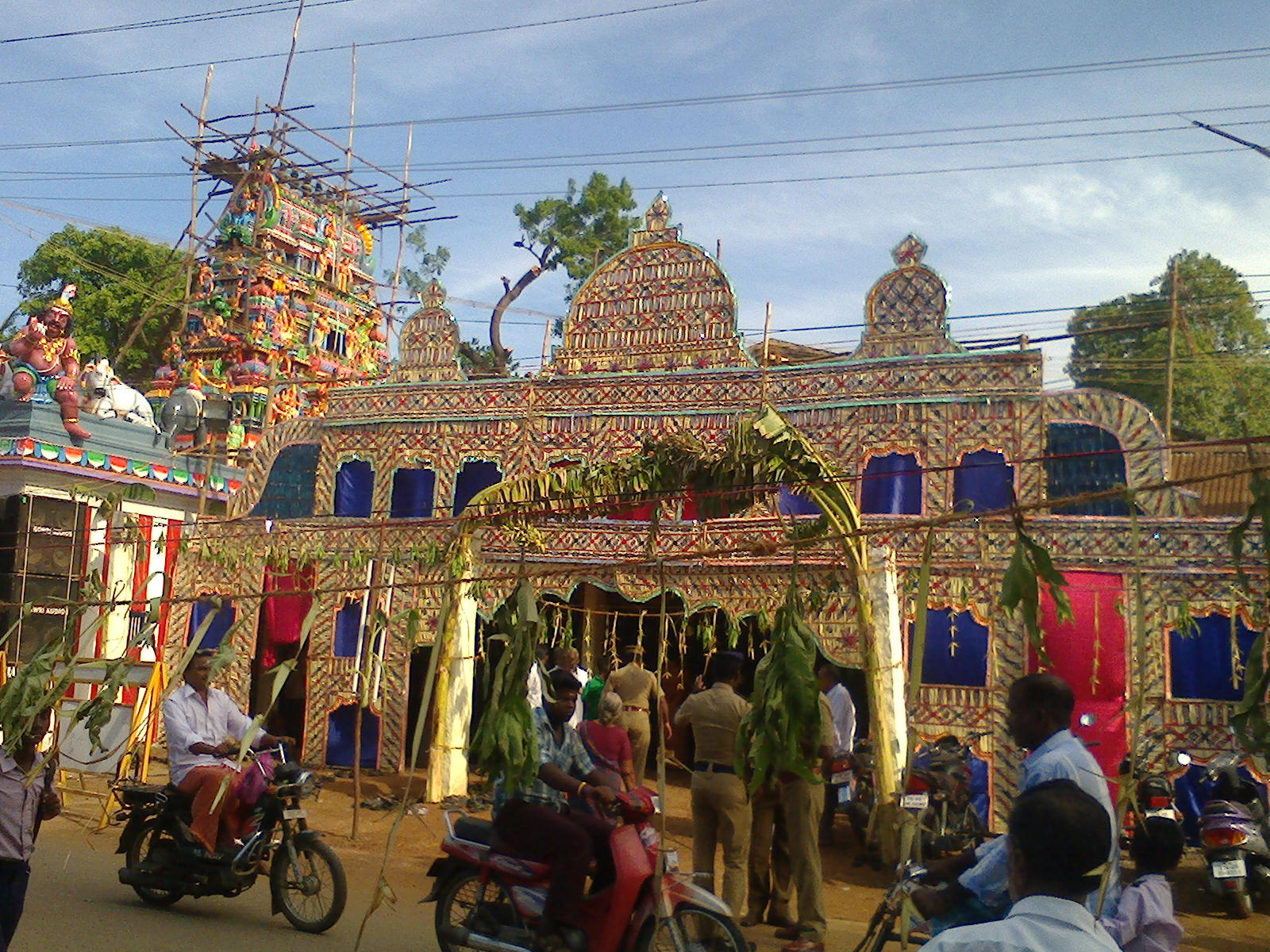 Kumbabisegam of Vellaivinayakar Temple at Thanjavur in Tamil Nadu, on 15.9.2014 தஞ்சாவூர் வெள்ளை விநாயகர் கோயிலில் 15.9.2014 அன்று நடைபெற்ற குடமுழுக்கு